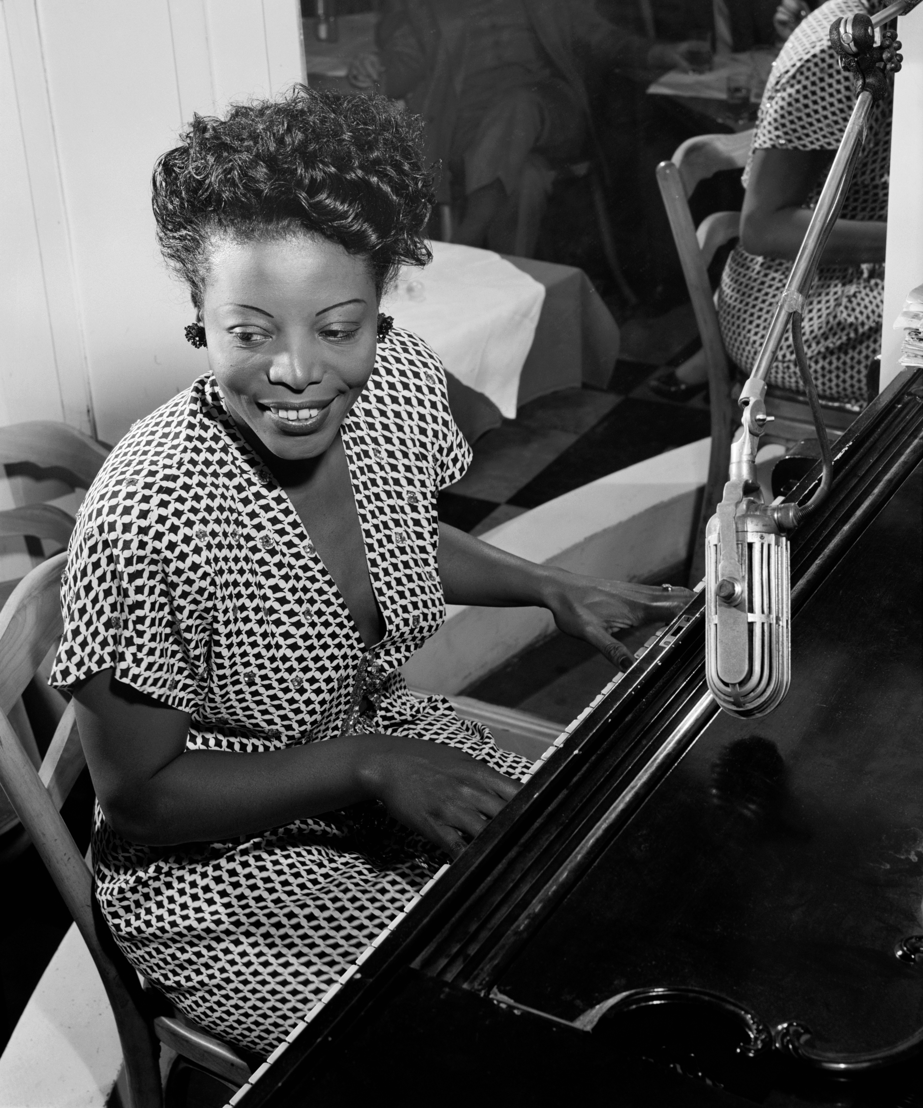 [Portrait of Mary Lou Williams, New York, N.Y. ca. 1946]